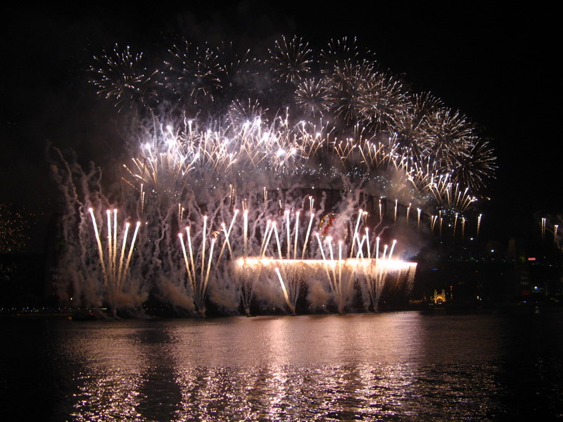 Fireworks over Sydney Harbour Bridge, New Year's Eve 2007